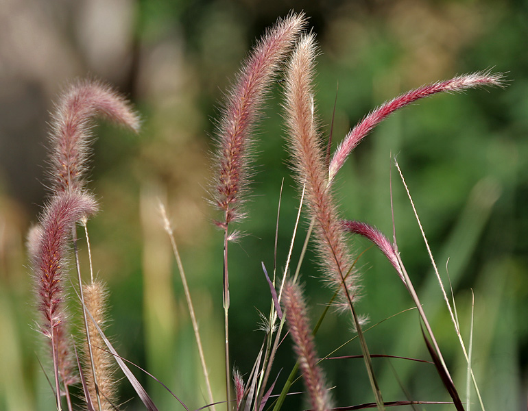 Purple Fountain Grass Pennisetum setaceum in Hyderabad , India.